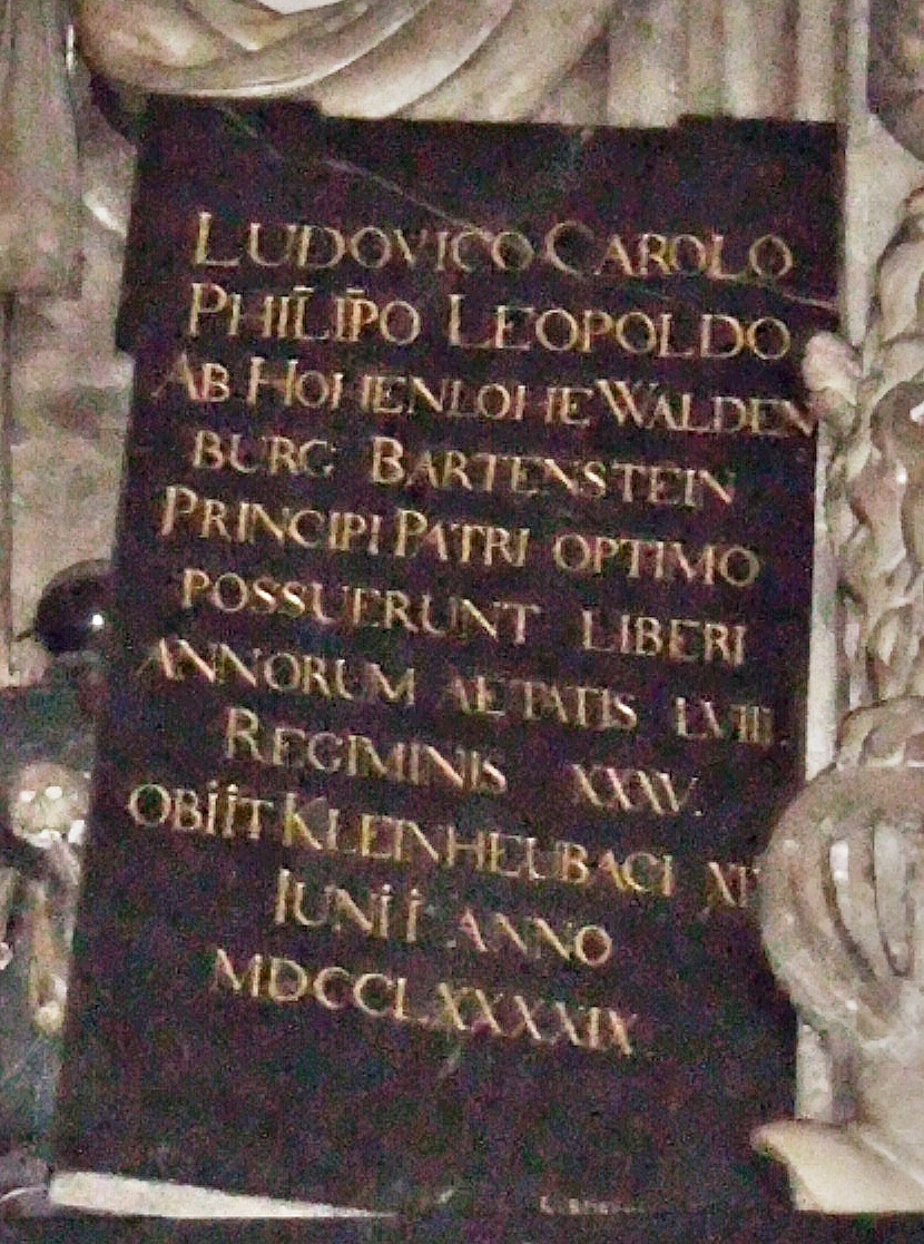 Epitaphinschrift Fürst Ludwig Carl Franz Leopold zu Hohenlohe-Bartenstein (1731-1799), Kloster Engelberg, Großheubach